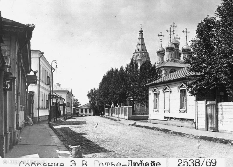 6th Rostovsky lane (1913)